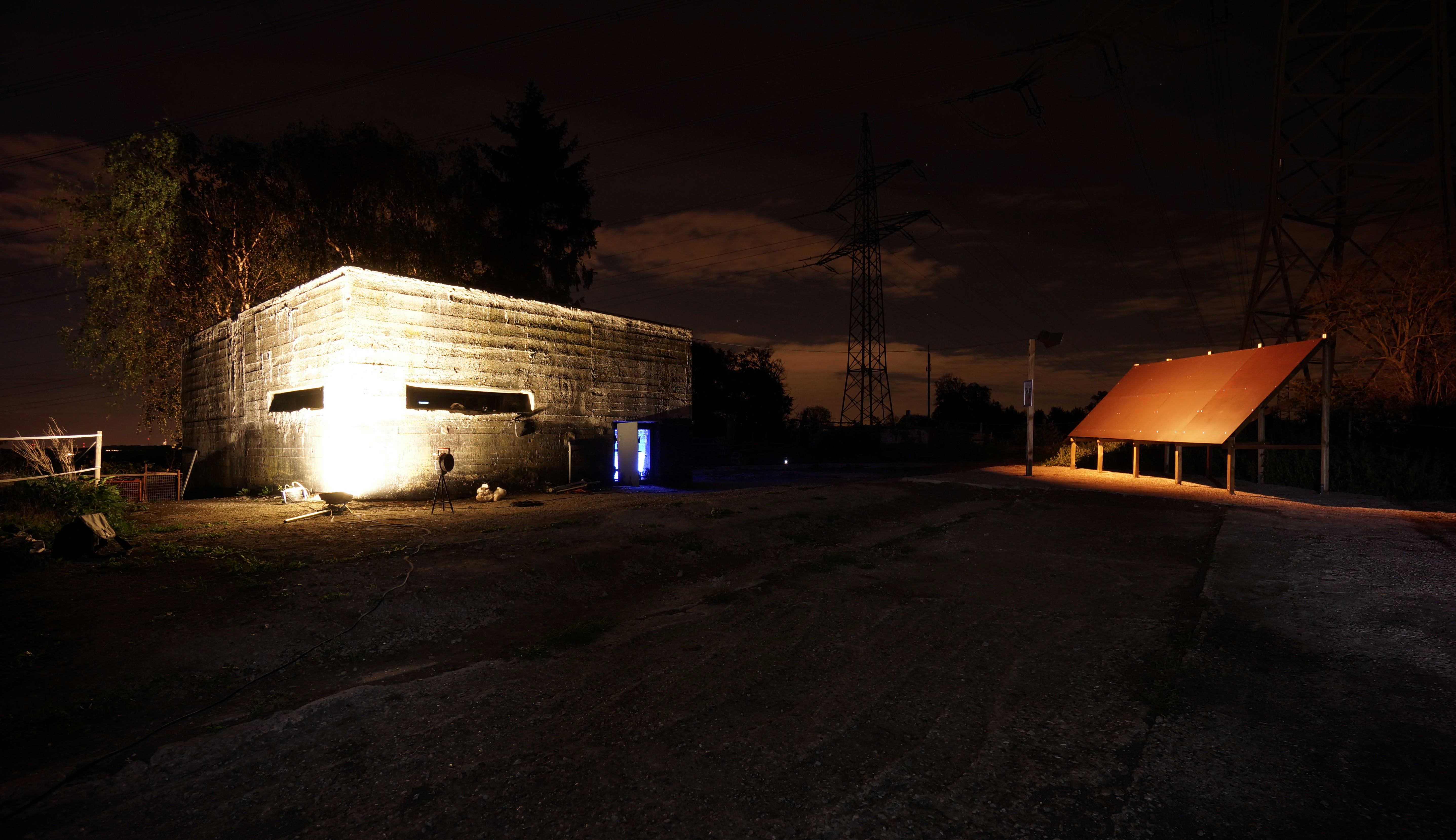 Illumination during the Museum Night 2019